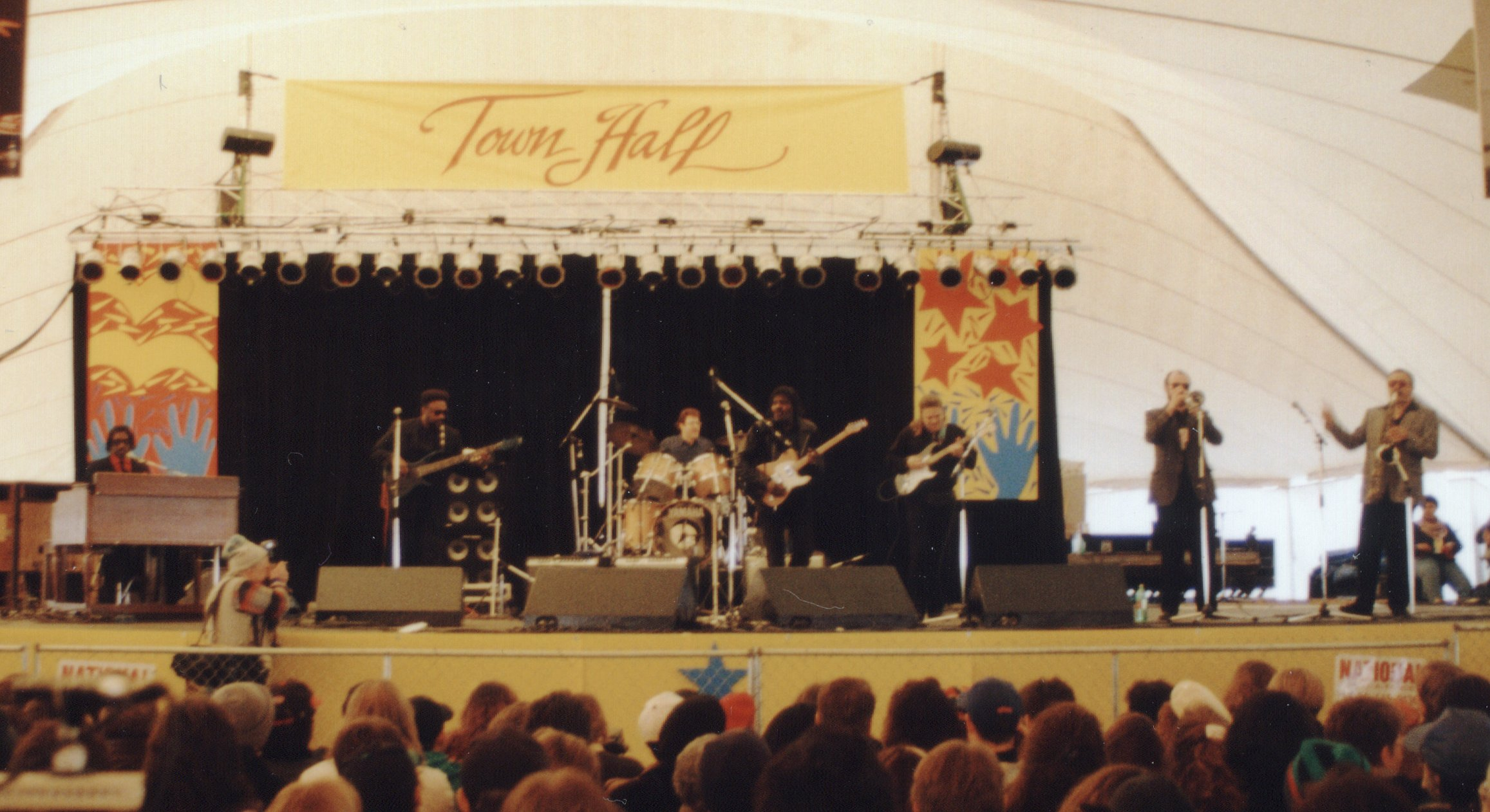 Albert Collins and his band, performing at the "Reunion on the Mall", a festival on the Washington Mall preceding Bill Clinton's 1993 inauguration.